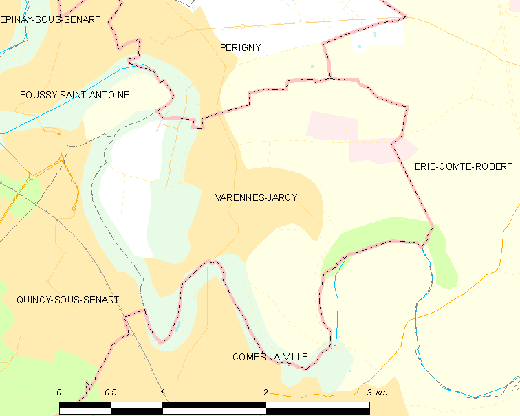 Map of French municipality Varennes-Jarcy